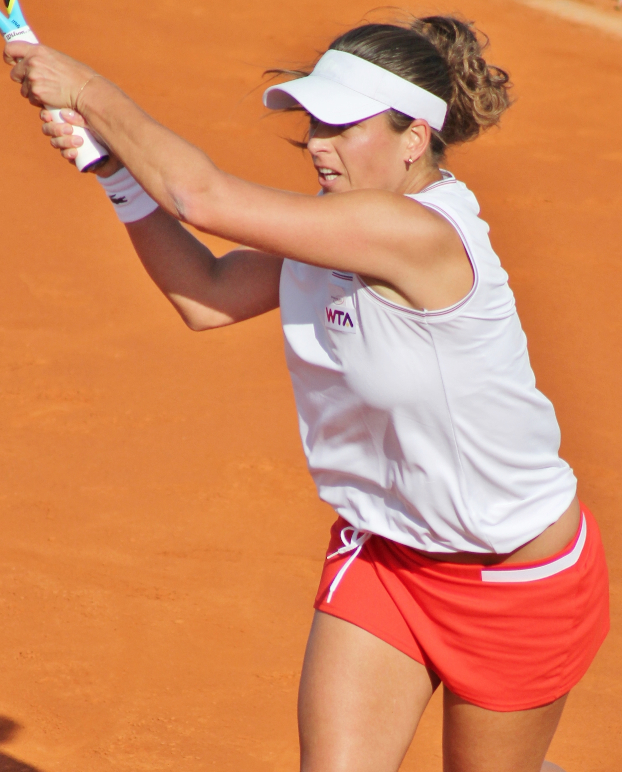 Petra Cetkovská at the 2014 Mutua Madrid Open (10)